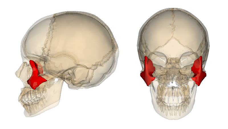 Zygomatic bone. Images are from Anatomography maintained by Life Science Databases(LSDB).